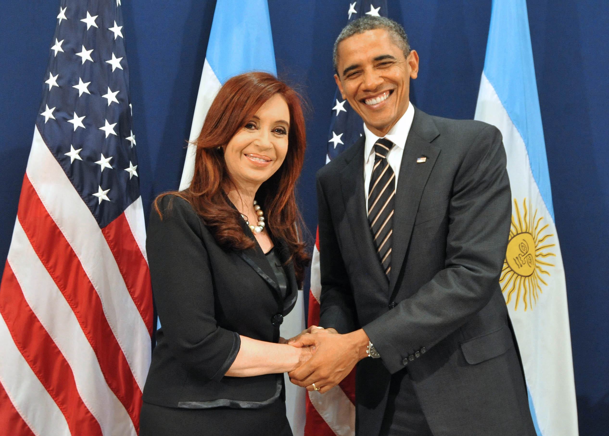 The Argentine President, Cristina Fernández de Kirchner, with the United States President, Barack Obama, during a meeting in the G-20 2011, which took place in Cannes, France.